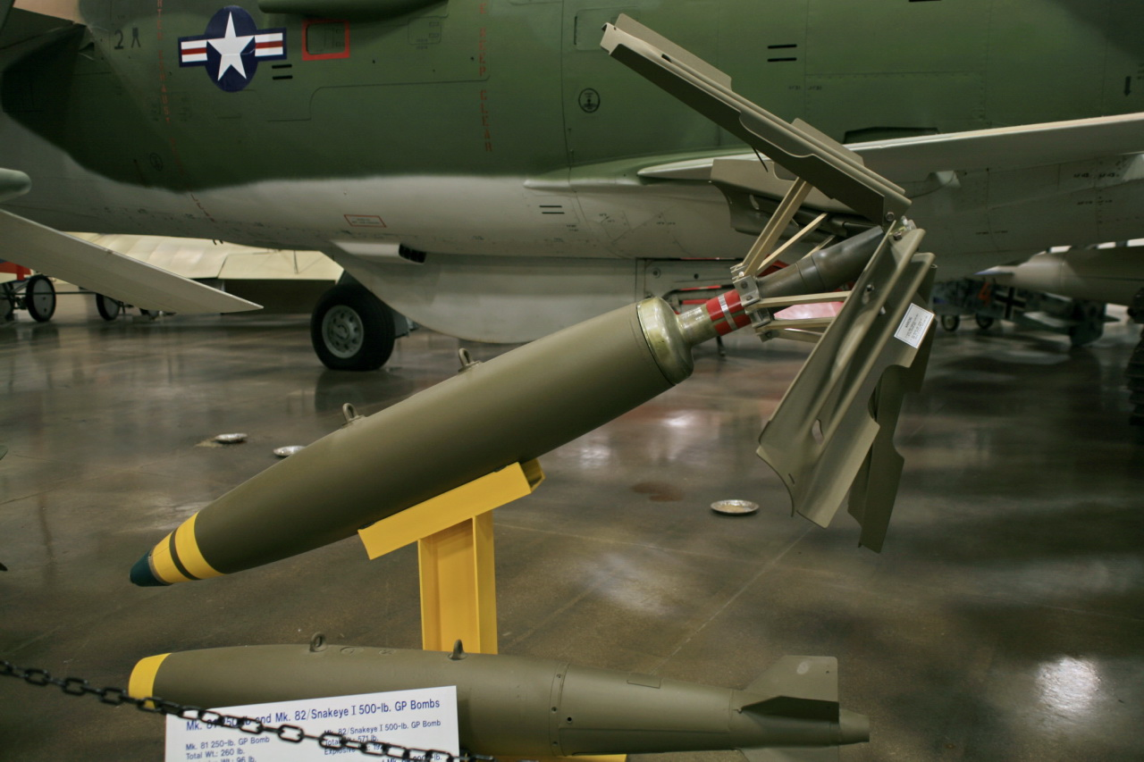 Mk. 81 250-lb and Mk. 82/Snakeye I 500-lb. GP Bombs: The Mk. 81 250-lb., Mk. 84 500-lb. General Purpose (GP) Bombs were designed as a new series of low-drag bombs. The explosive was either TNT (1 yellow noseband), Amatol (2 yellow nosebands), or Tritonal (3 yellow nosebands). These bombs were used extensively throughout the Vietnam War and were carried on most attack, bomber and fighter aircraft of the day. The difference between the standard free fall MK. 82 and the MK. 82/Snakeye is the Mk. 15 Tail Retarding Device. This device was used in low-level ground attacks and slowed the descent of the bomb so that the attacking aircraft could clear the blast area.